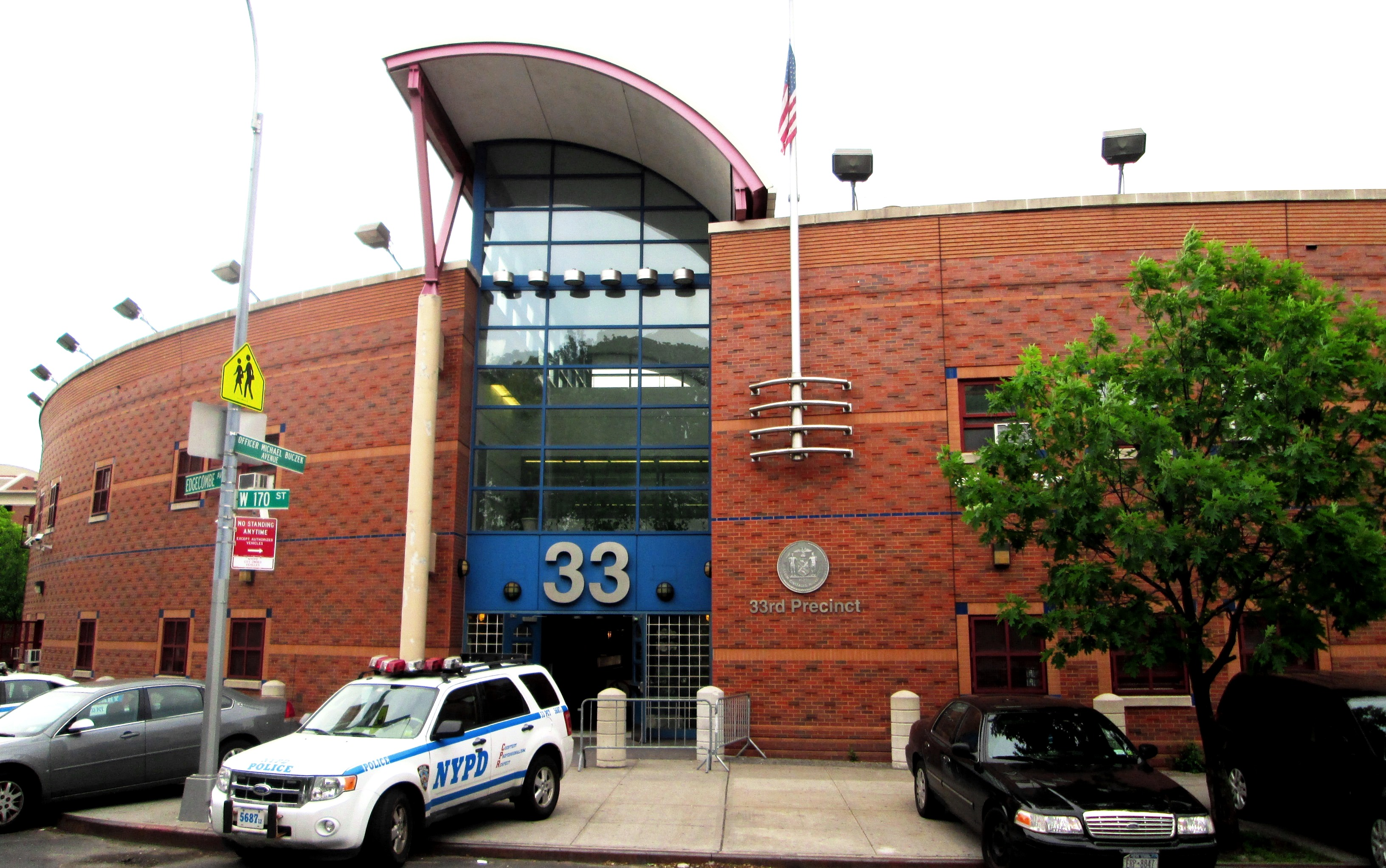 The NYPD 33rd Precinct is located at 2179 Amsterdam Avenue at the intersection of Jumel Place and Edgecombe Avenue in the Washington Heights neighborhood of Manhattan, New York City. It was built in 1997-2002 and was designed by Dattner Architects. The curved facade was intended to echo Castle Clinton in Battery Park. (Source: AIA Guide to NYC (5th ed.))